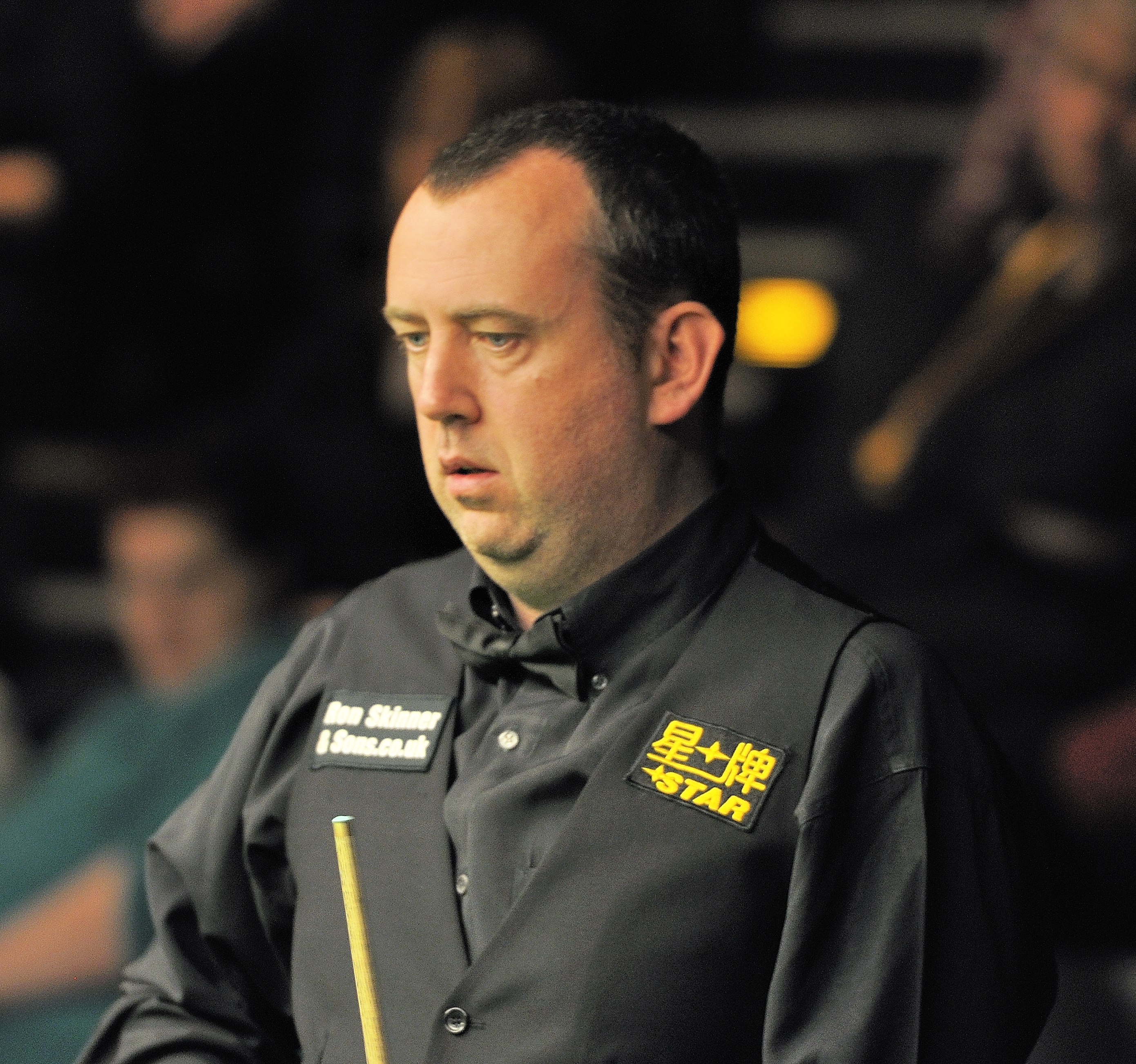 Picture taken in Berlin during the Snooker German Masters in 2014. Mark Williams.